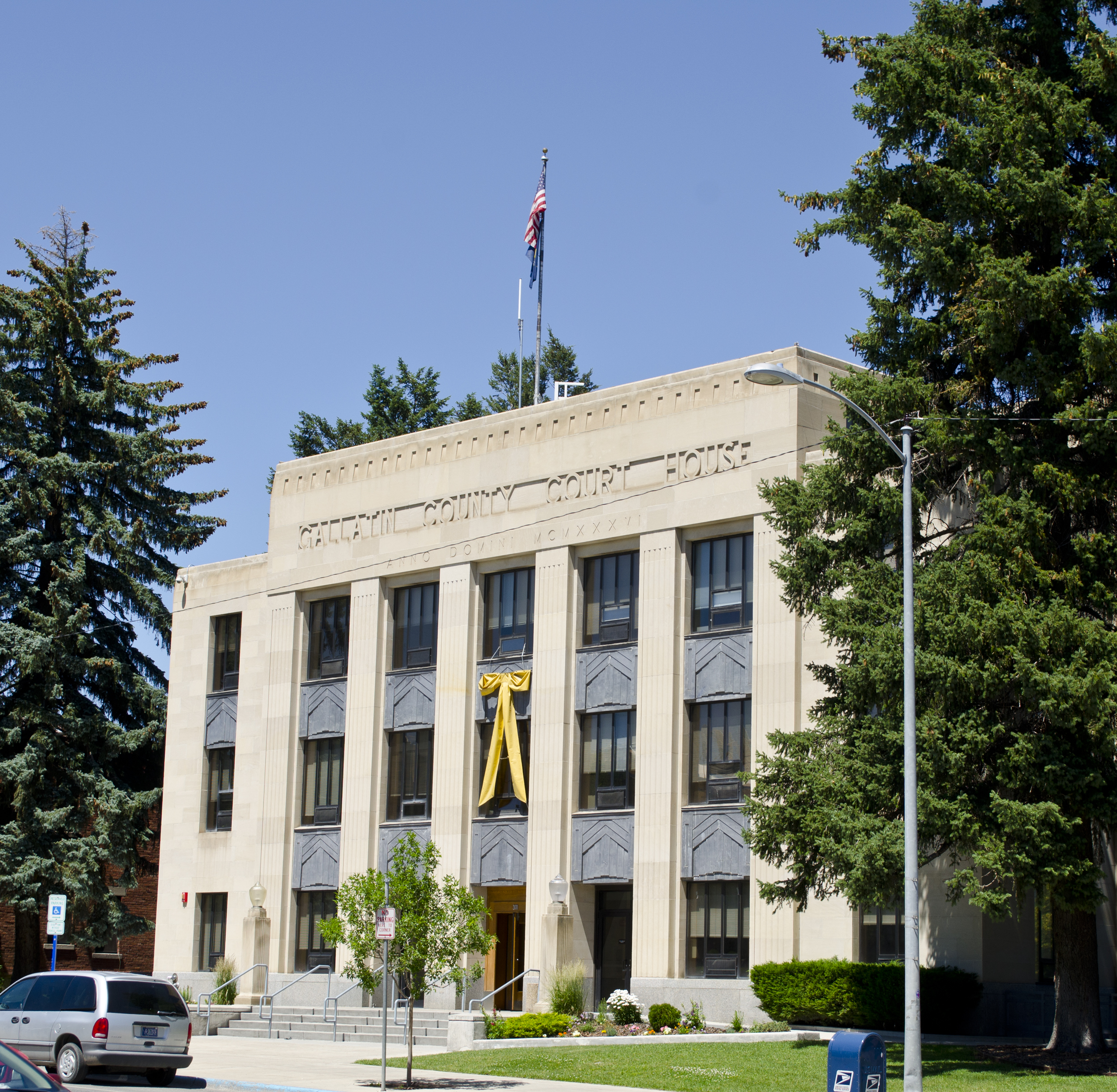 Looking northwest at the Gallatin County Courthouse, 301 W. Main Street, Bozeman, Montana. Designed by local architect Fred Willson (who built much of downtown Bozeman), it was constructed from 1935 to 1936. The Art Deco structure was built partially with federal funds from the Public Works Administration. The structure was listed on the National Register of Historic Places on December 21, 1987.